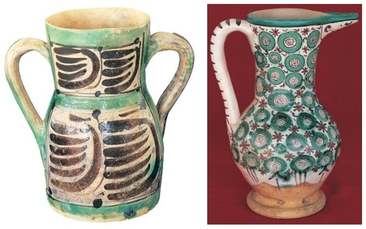 Jar (double asa terrazzo) and pitcher (picher) decorated in green and manganese (morado-negro), 14th century. Museum of Teruel (Spain).